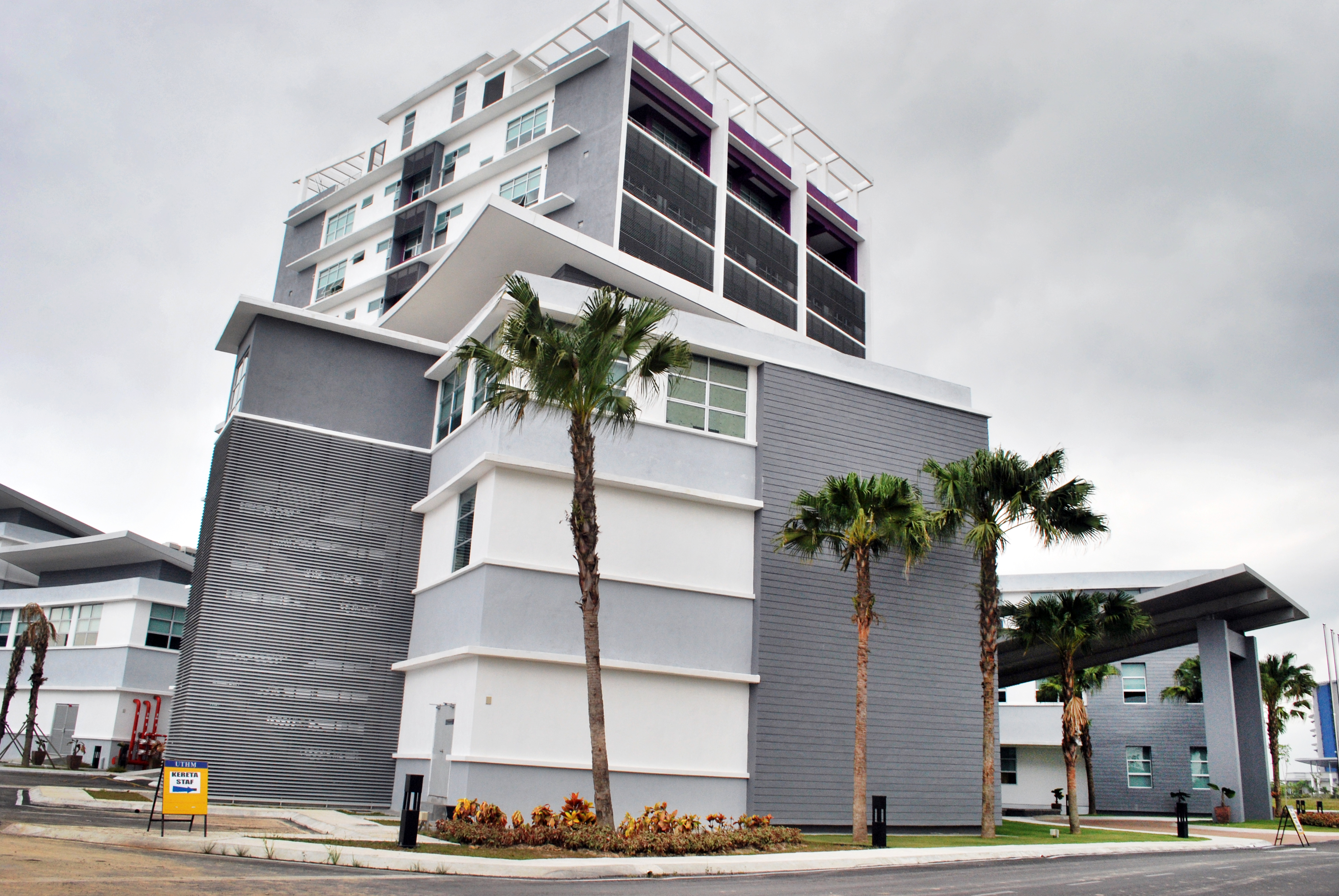 UTHM FPTP building